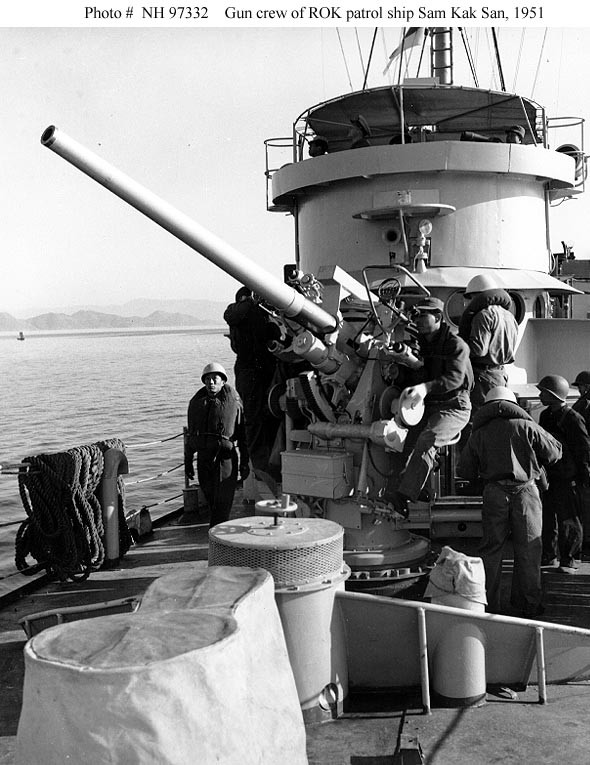 Photo #: NH 97332 Sam Kak San (Korean Submarine Chaser, # 703, formerly USS PC-802) Crew fires the ship's 3"/50 gun "at the Communist-led North Koreans along the west coast of Korea" (quoted from original caption). Photograph is dated 18 December 1951. Official U.S. Army Photograph, from the collections of the Naval Historical Center.